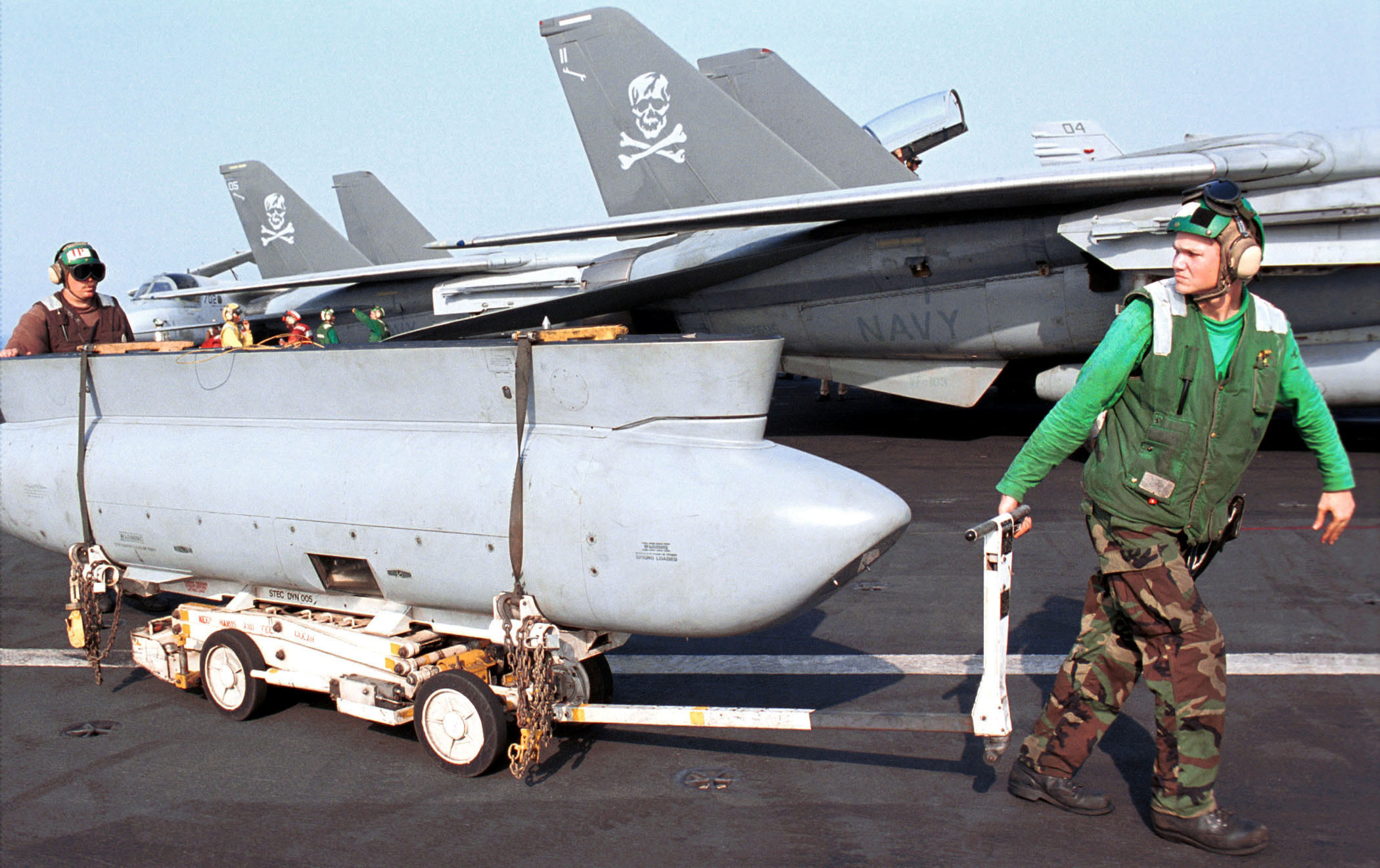 Photographers Mate 3rd Class Andrew Kaeding and Photographers Mate 1st Class William Lipski move a Tactical Air Reconnaissance Pod System (TARPS) pod after being downloaded from an F-14 Tomcat aircraft attached to the "Jolly Rogers" of Fighter Squadron One Zero Three (VF 103) on the flight deck of USS GEORGE WASHINGTON (CVN 73). Washington is operating in the Arabian Gulf in support of operation Southern Watch.